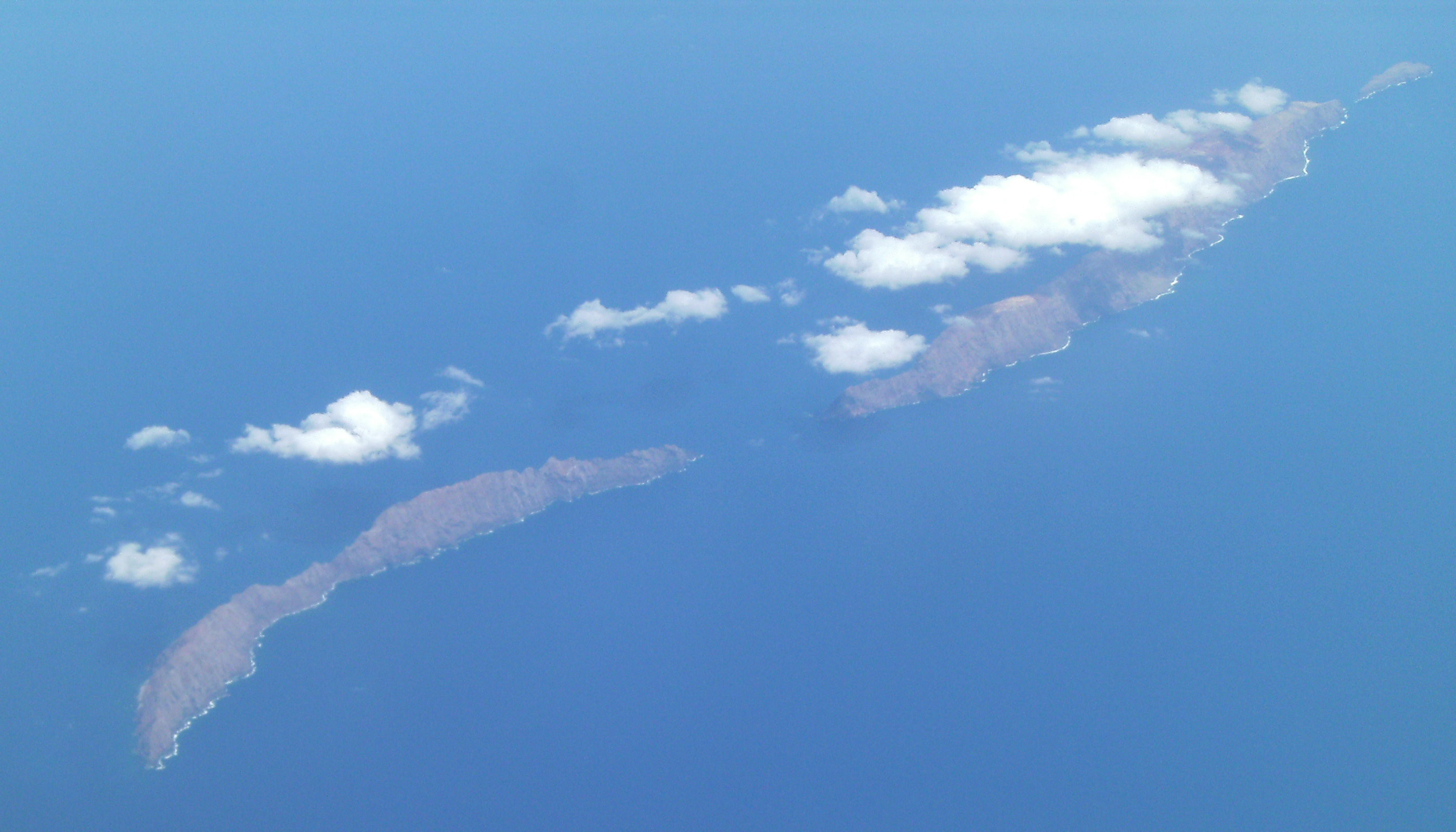 Ilhas Desertas in Madeira archipelago, seen from airplane, june 2008.